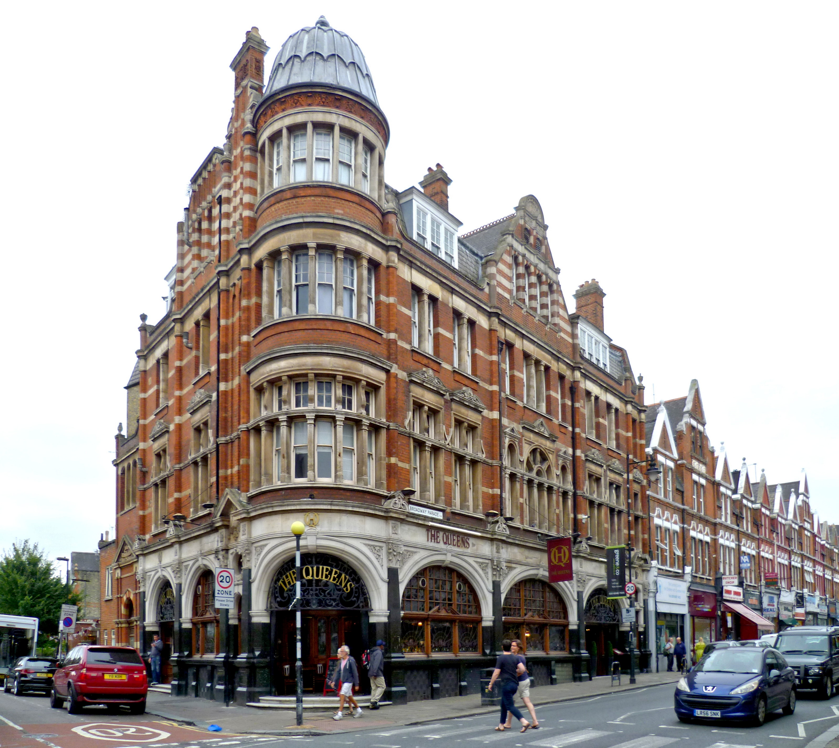 Crouch End